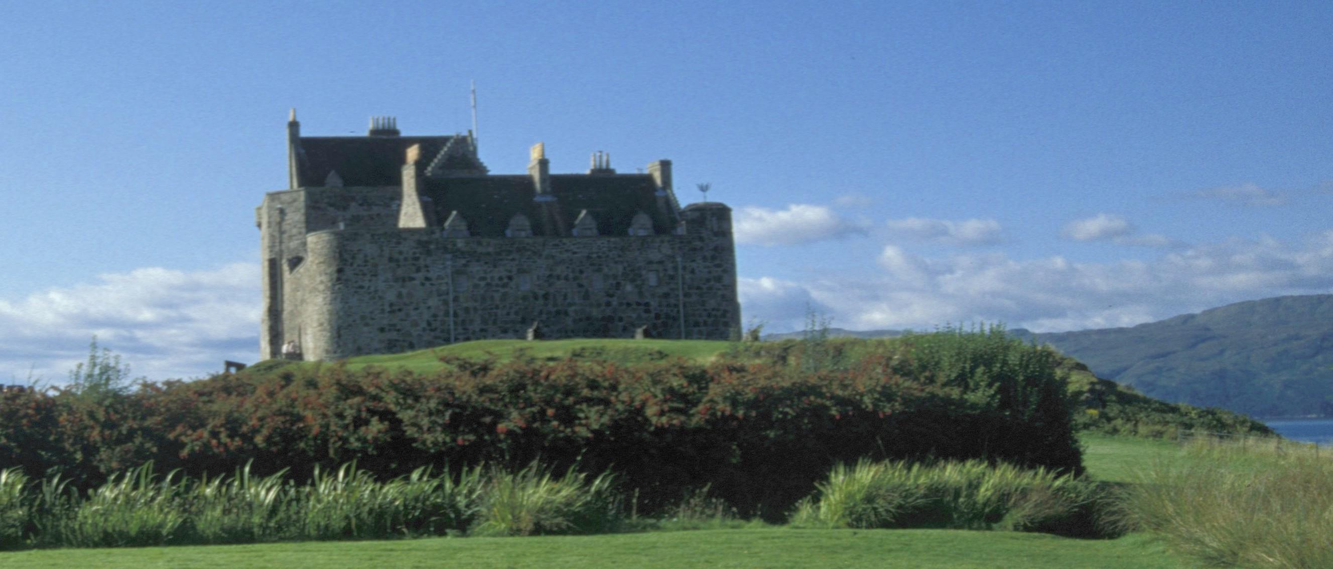 Duart Castle, Mull (island), Scotland